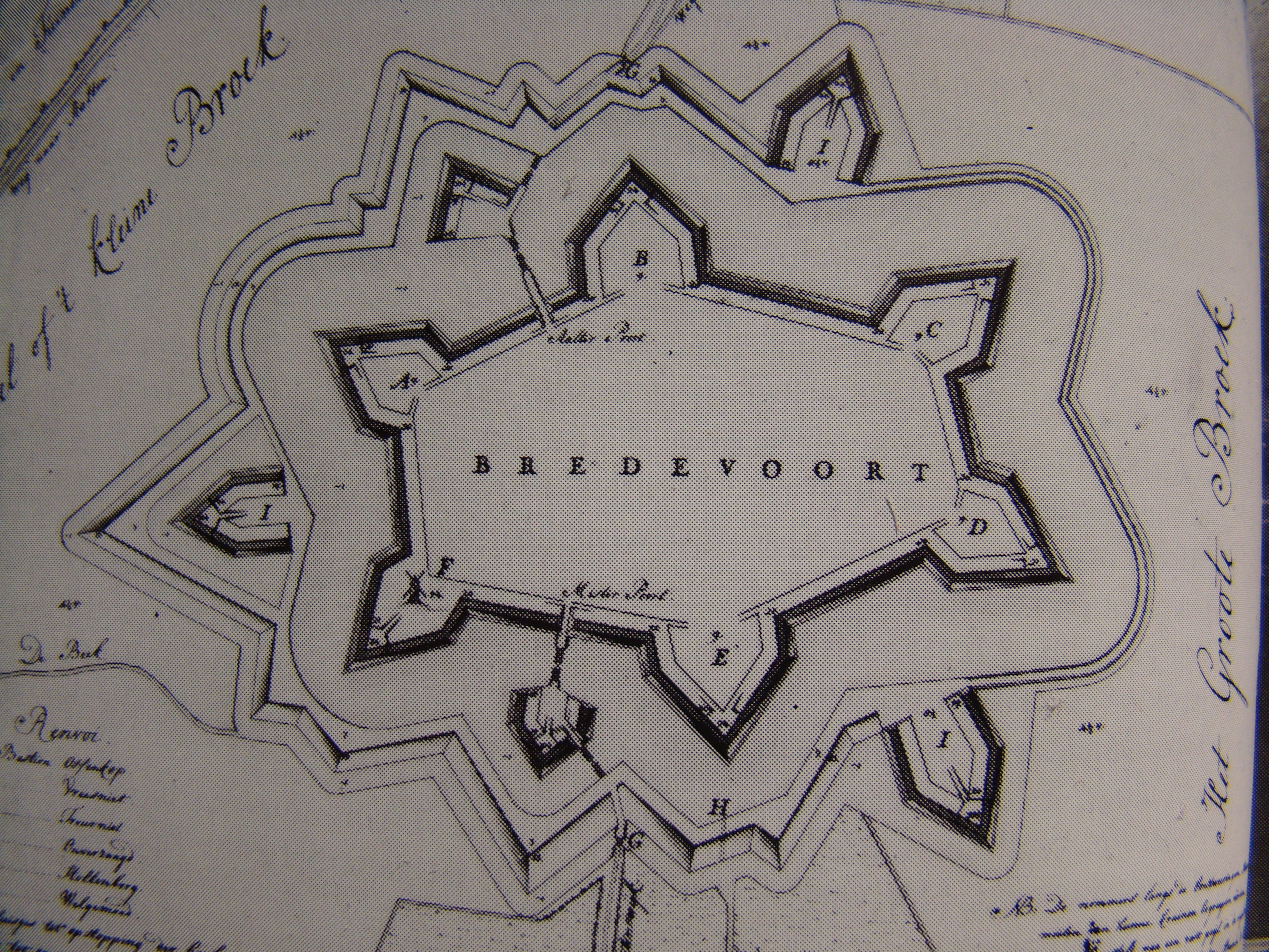 extensionplans Bredevoort (never finished)